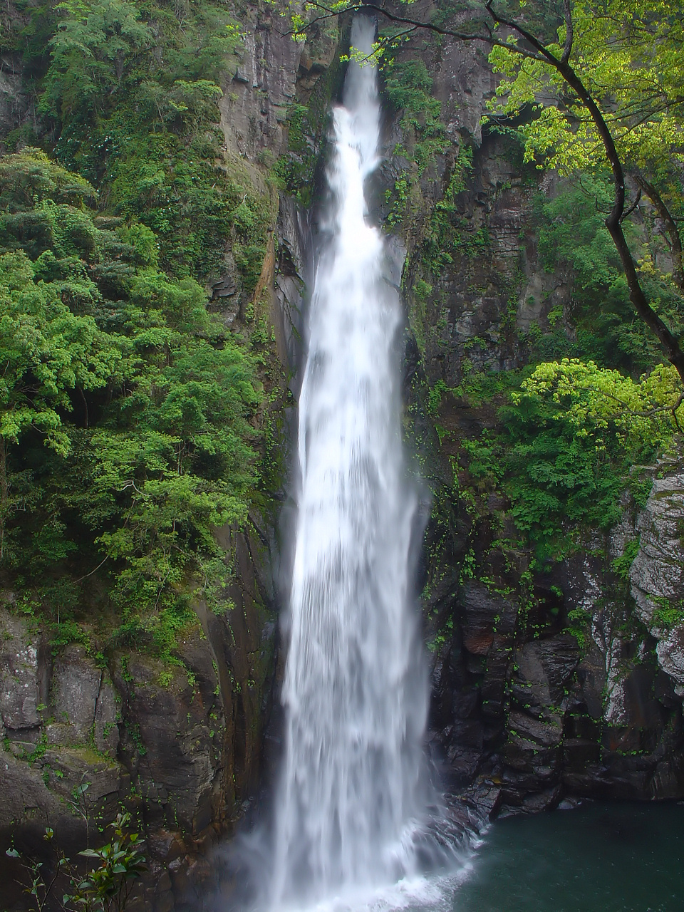 Nishishiiya Falls (Nishishiiya-no-taki), Taken at Kusu Town, Oita Prefecture, Japan.